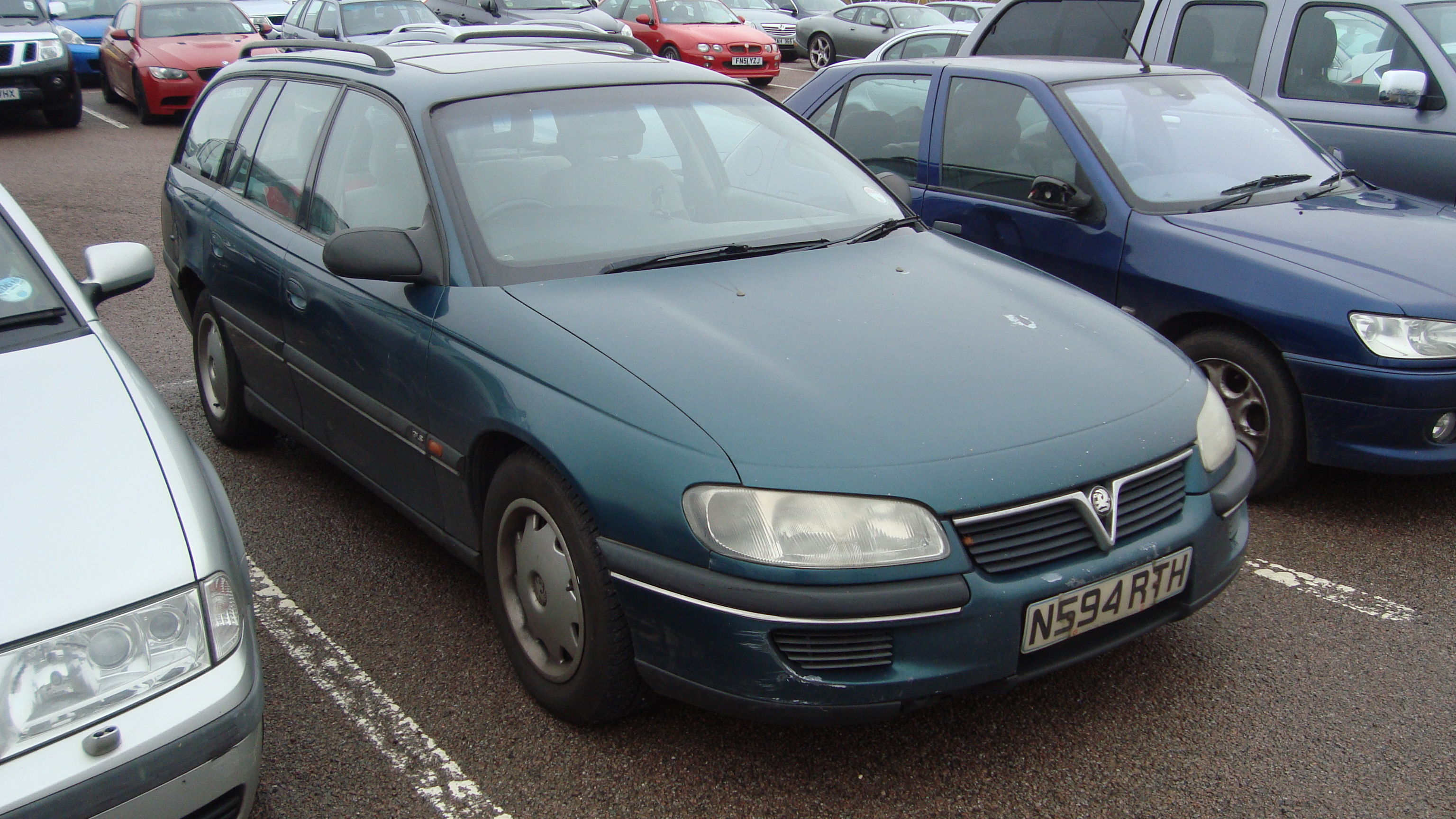 These pre-facelift Omega's are getting rare now so I was very pleasantly surprised to see three on the NEC car park. All three were Estates and had the 2.5 TD engine. This is 1 of just 28 of this spec on the road according to HML so one of the rarest cars on the car park